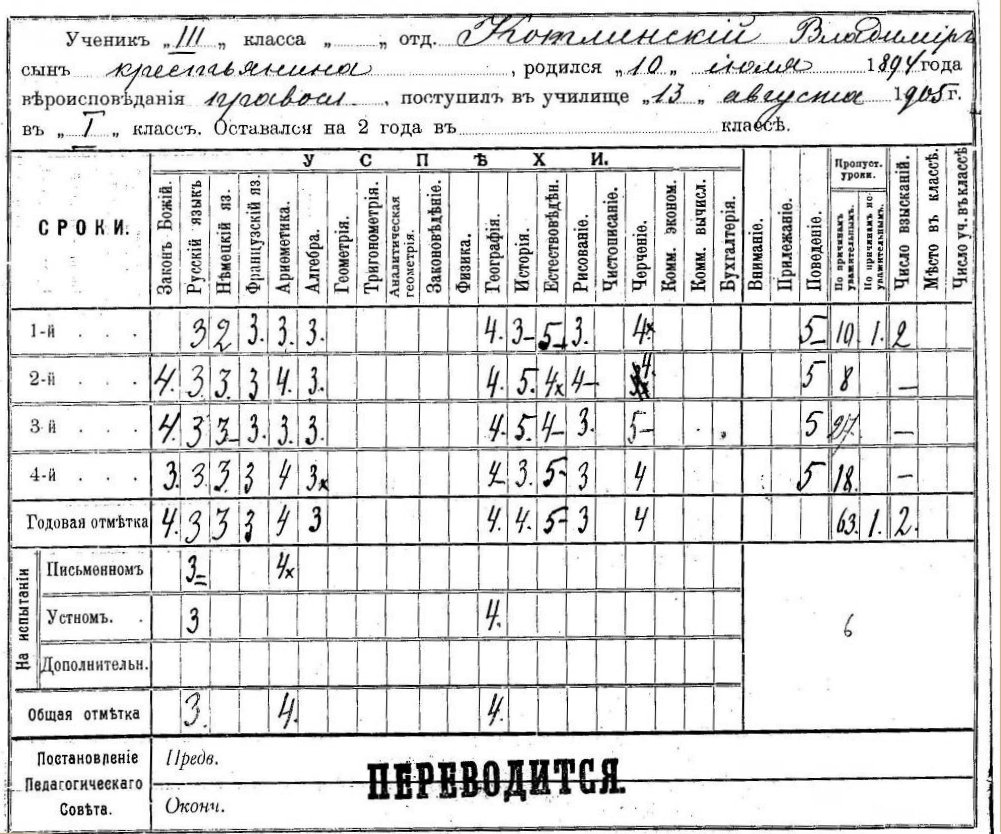 Realschule report card of Vladimir Kotlinsky, 3rd to 4th grade transfer, 1908